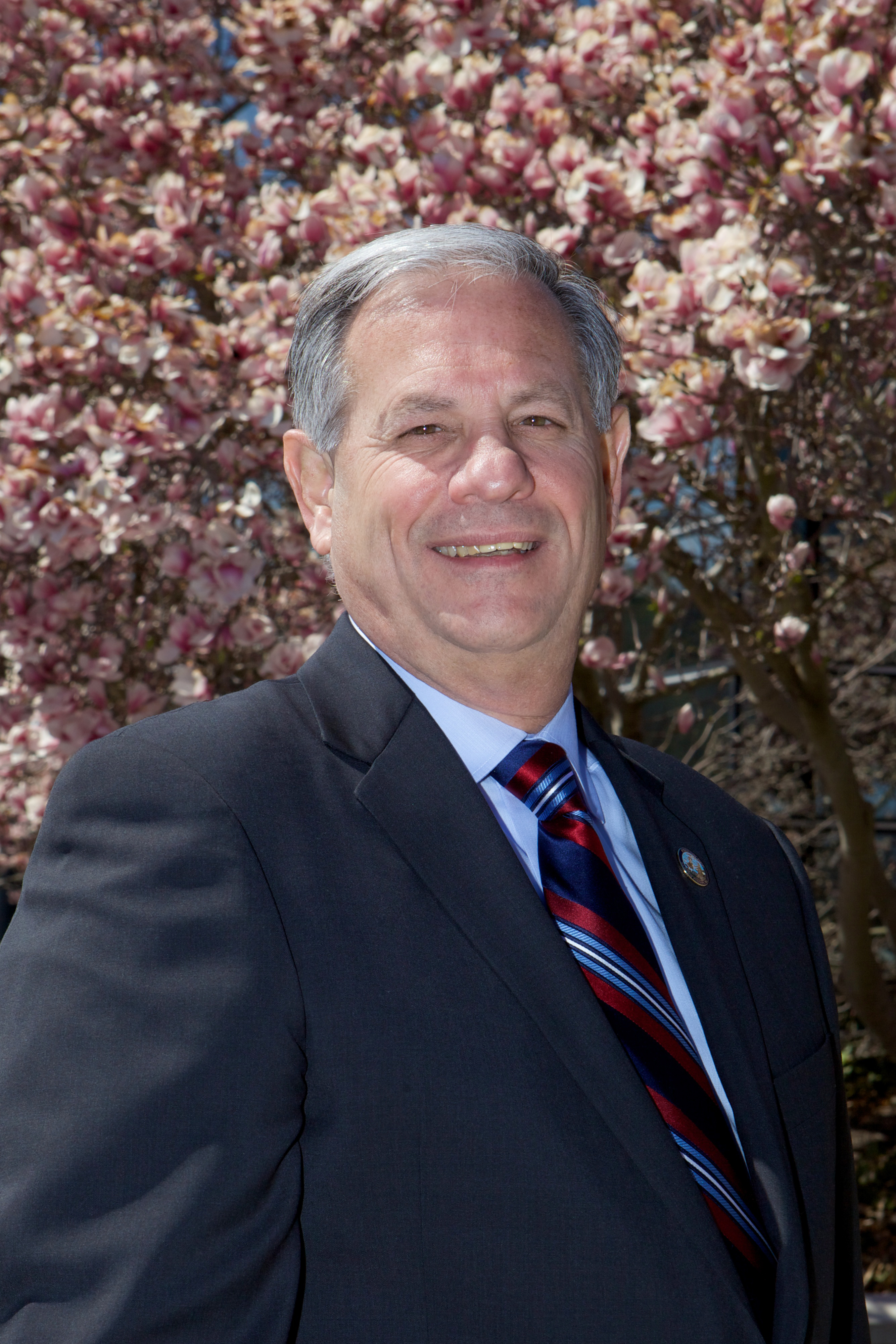 Bergen County Freeholder James Tedesco